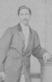 Manuel de Jesus Garcia (born 1834)